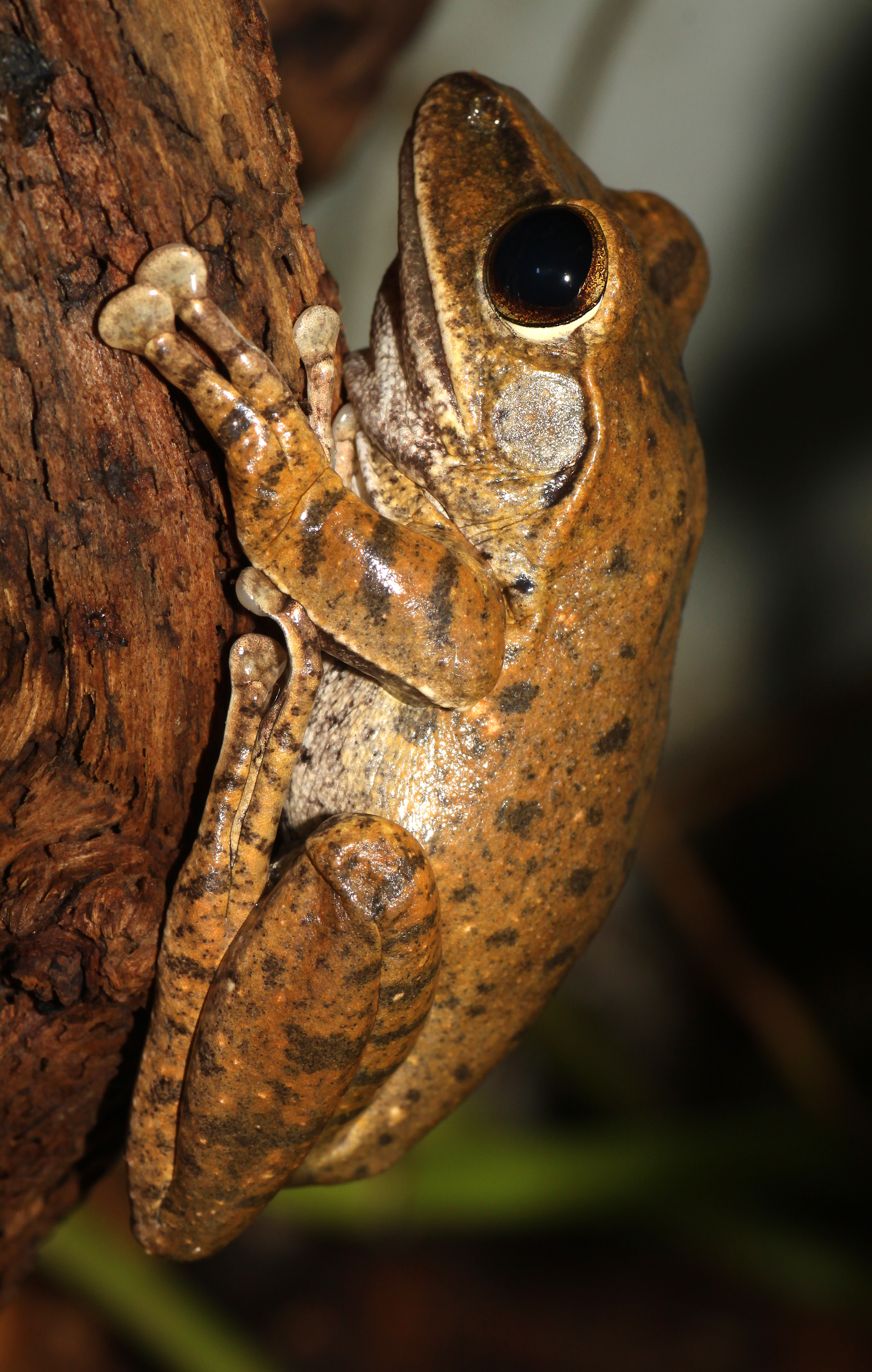 Common Tree Frog, Four-lined Tree Frog or White-lipped Tree Frog, Polypedates leucomystax, Family: Rhacophoridae, Location: Germany, Stuttgart, Zoological Garden